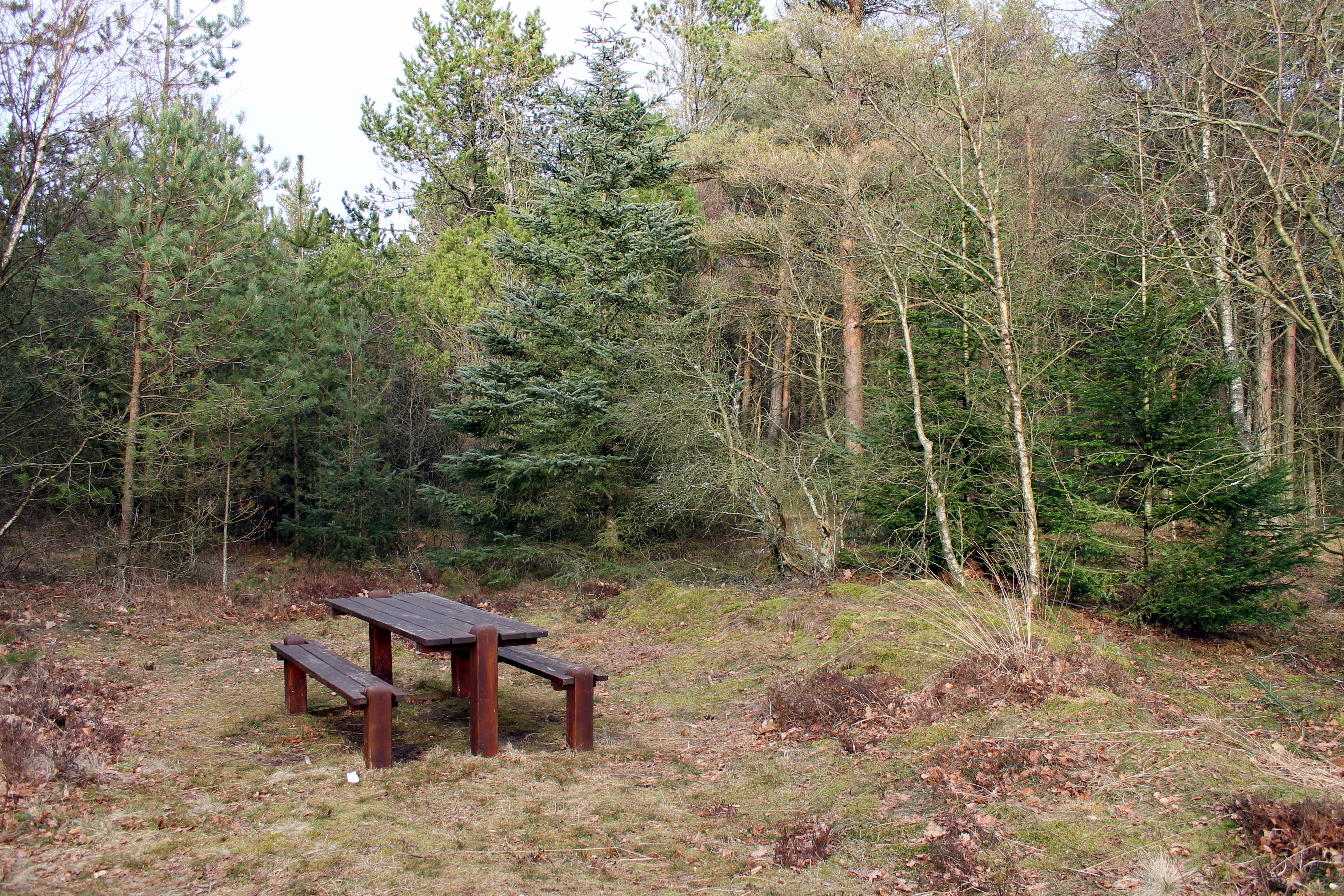 A picnic table in the Uggerby Forest in Denmark